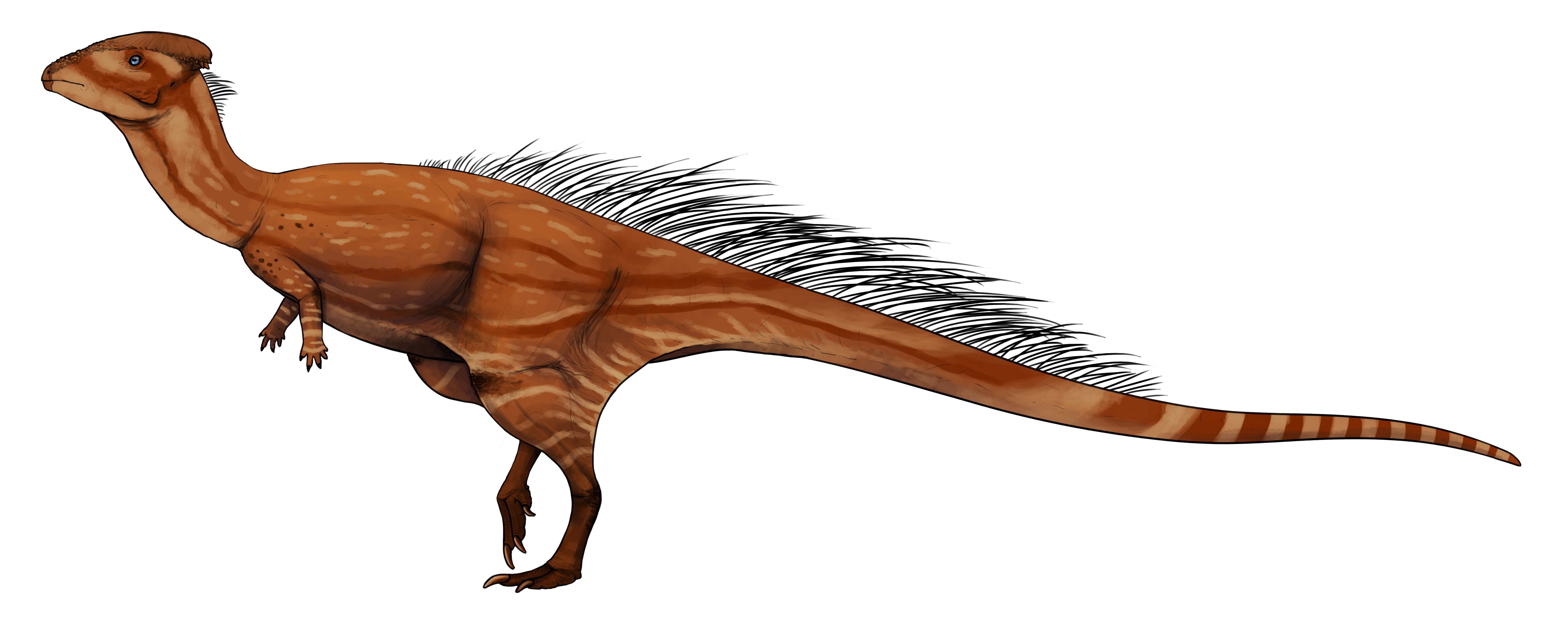 Wannanosaurus yansiensis reconstruction for review.